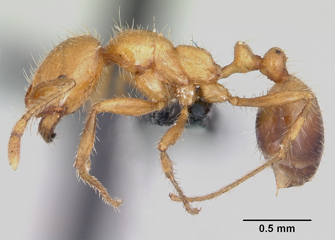 Profile view of ant Solenopsis geminata specimen casent0063126.